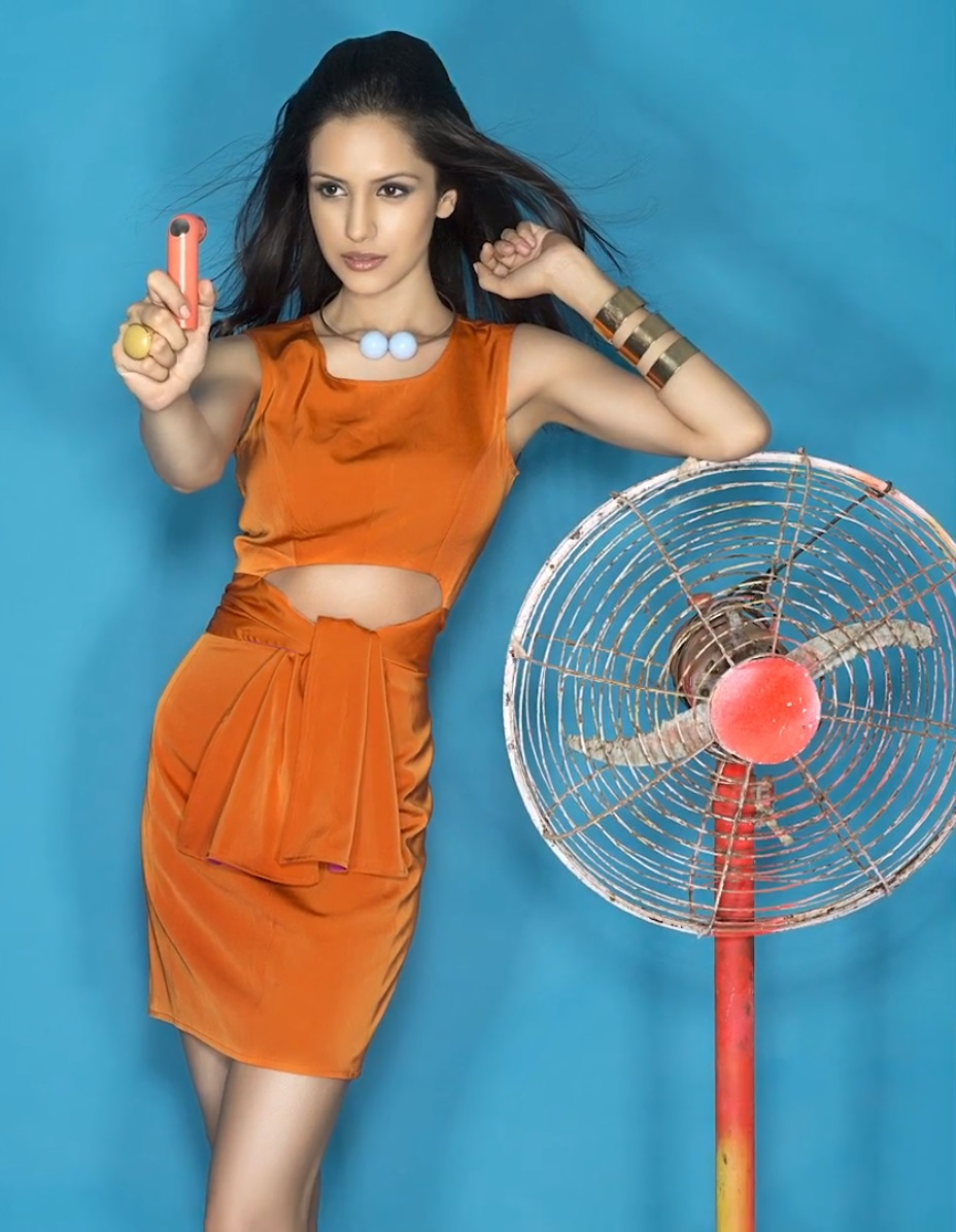 Exhibit Magazine Tech Stunner of March 2015 Koyal Rana